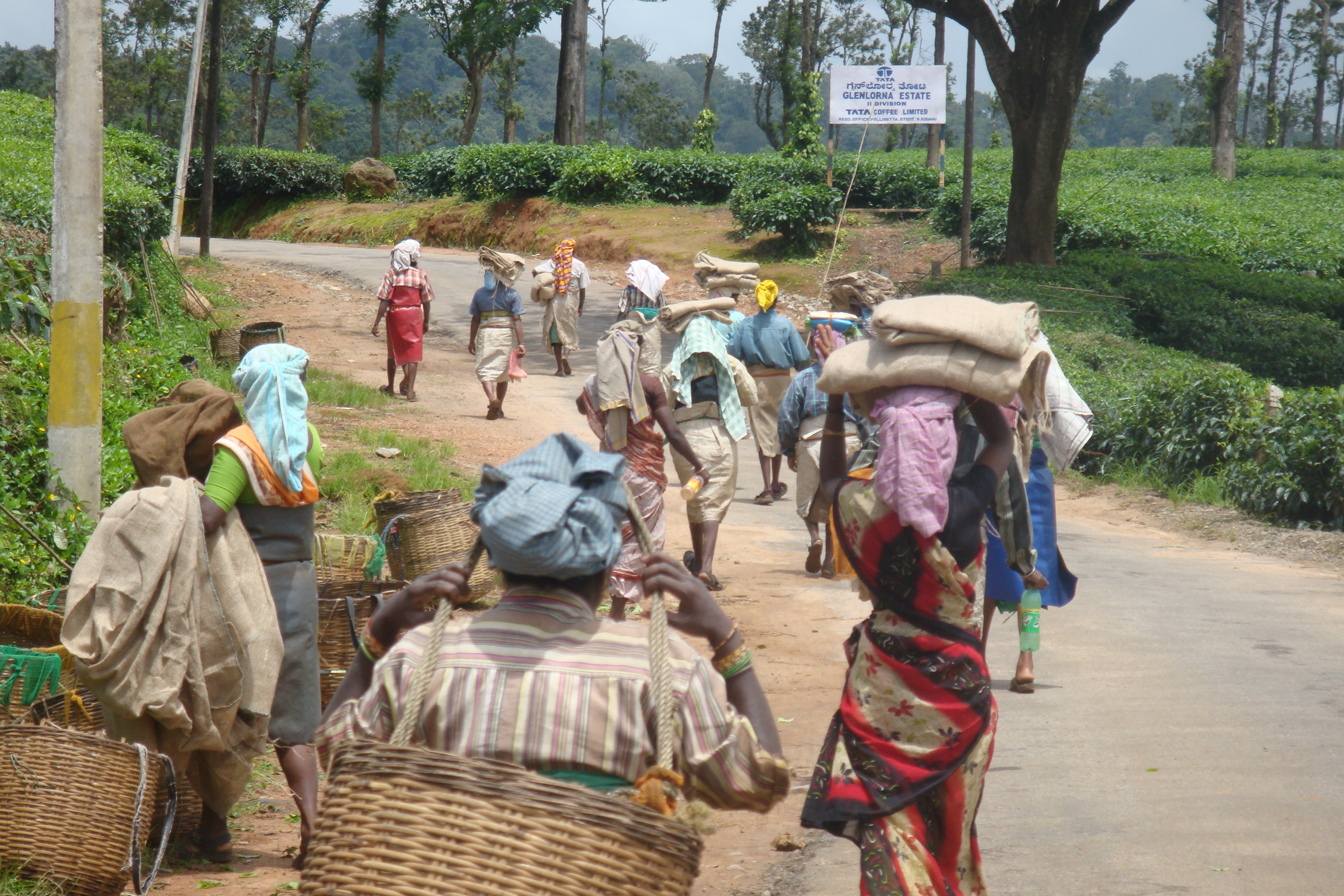 Glenlorna Tata Coffee Estate, Coorg, India